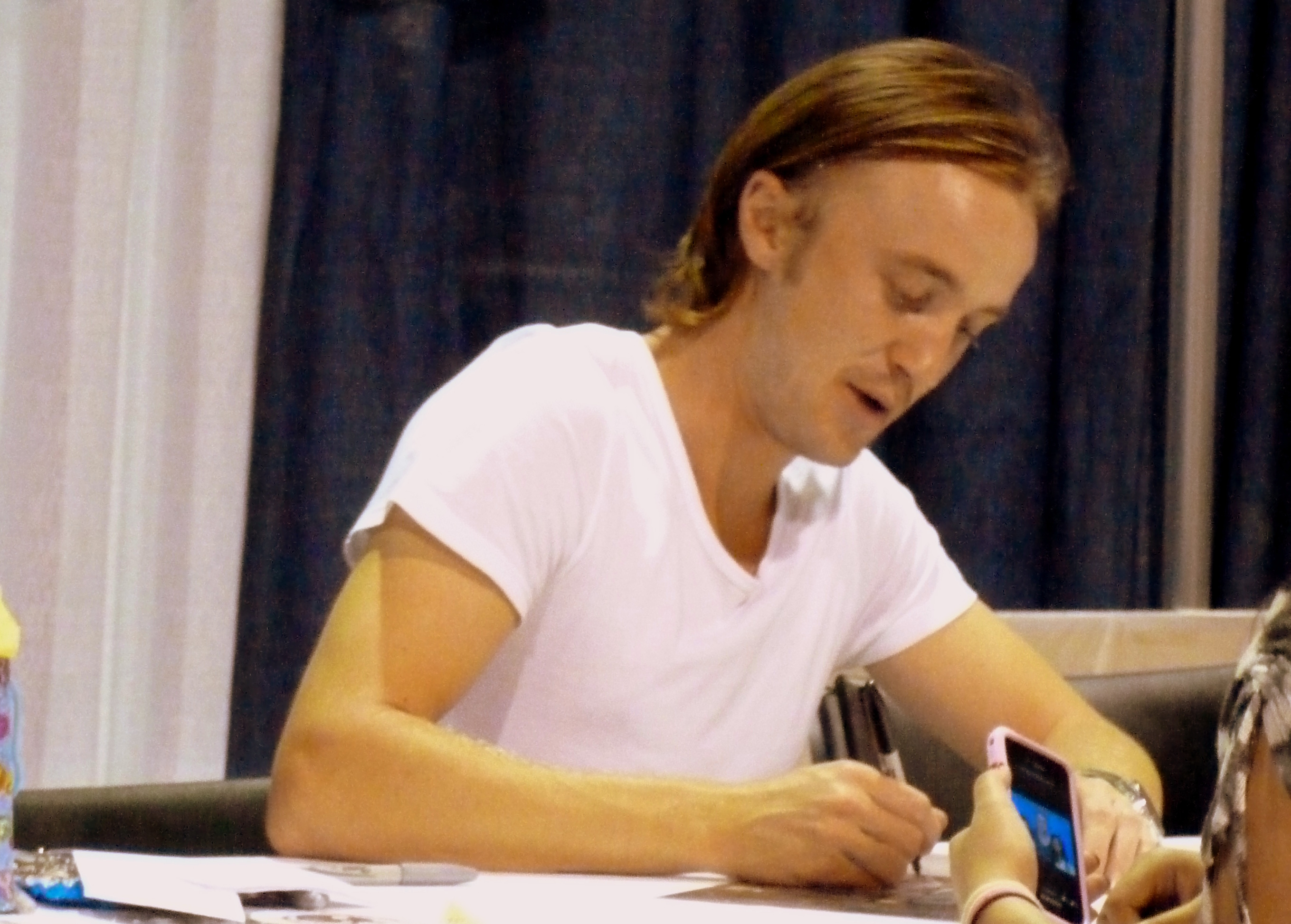 Tom Felton 1 Guests at Wizard World Chicago 2012.